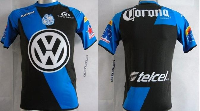 Puebla FC Kappa jersey from the 2011-12 tournament